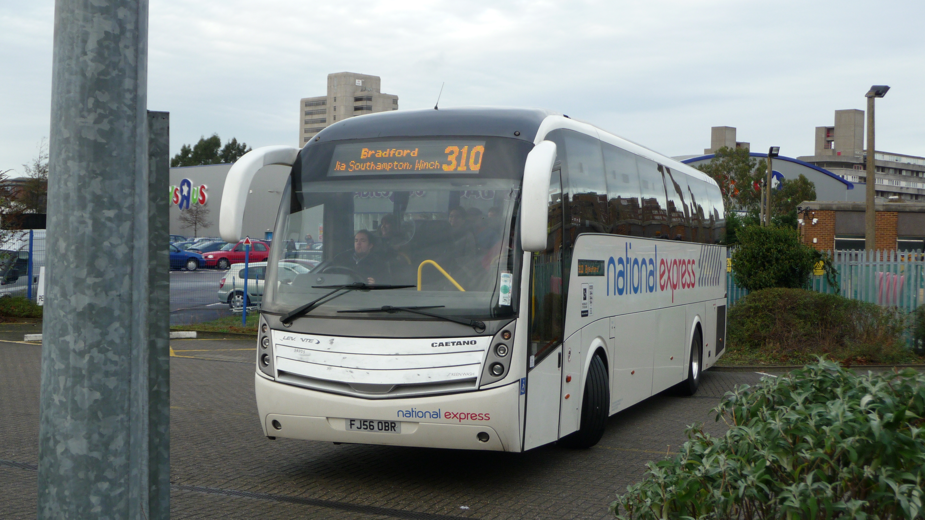 Stagecoach Yorkshire 59205 (FJ56 OBR), a Scania K340/Caetano Levante, finishing a reversing manoeuvre in Southampton coach station, to enabling it to leave, on National Express route 310 to Bradford.